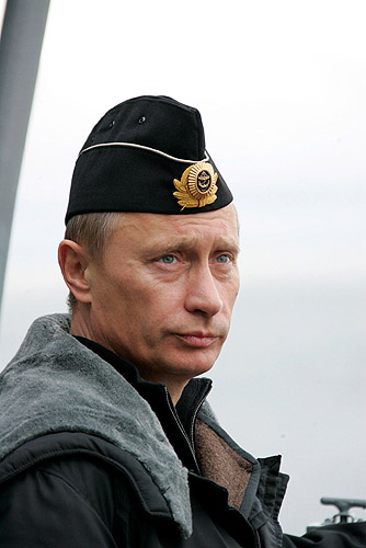 BARENTS SEA. On the board of the heavy nuclear cruiser Peter the Great during the military exercises of the Northern Fleet.